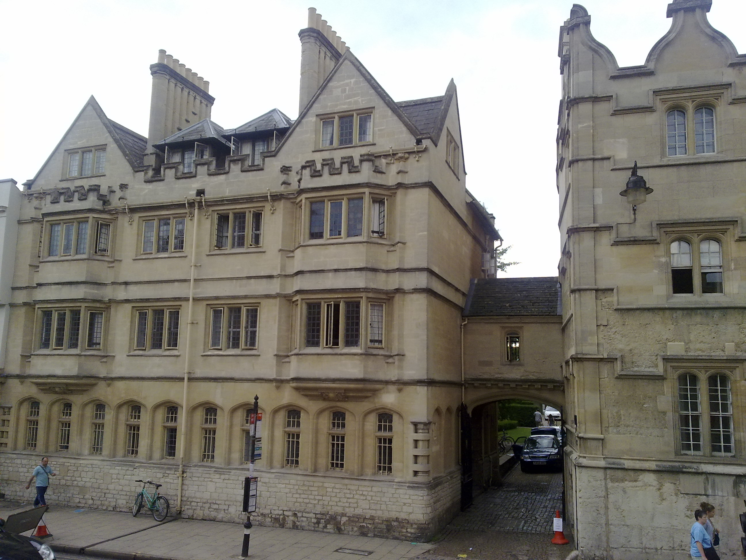 The High Street frontage of University College, Oxford, looking towards Logic Lane and the Logic Lane Bridge.